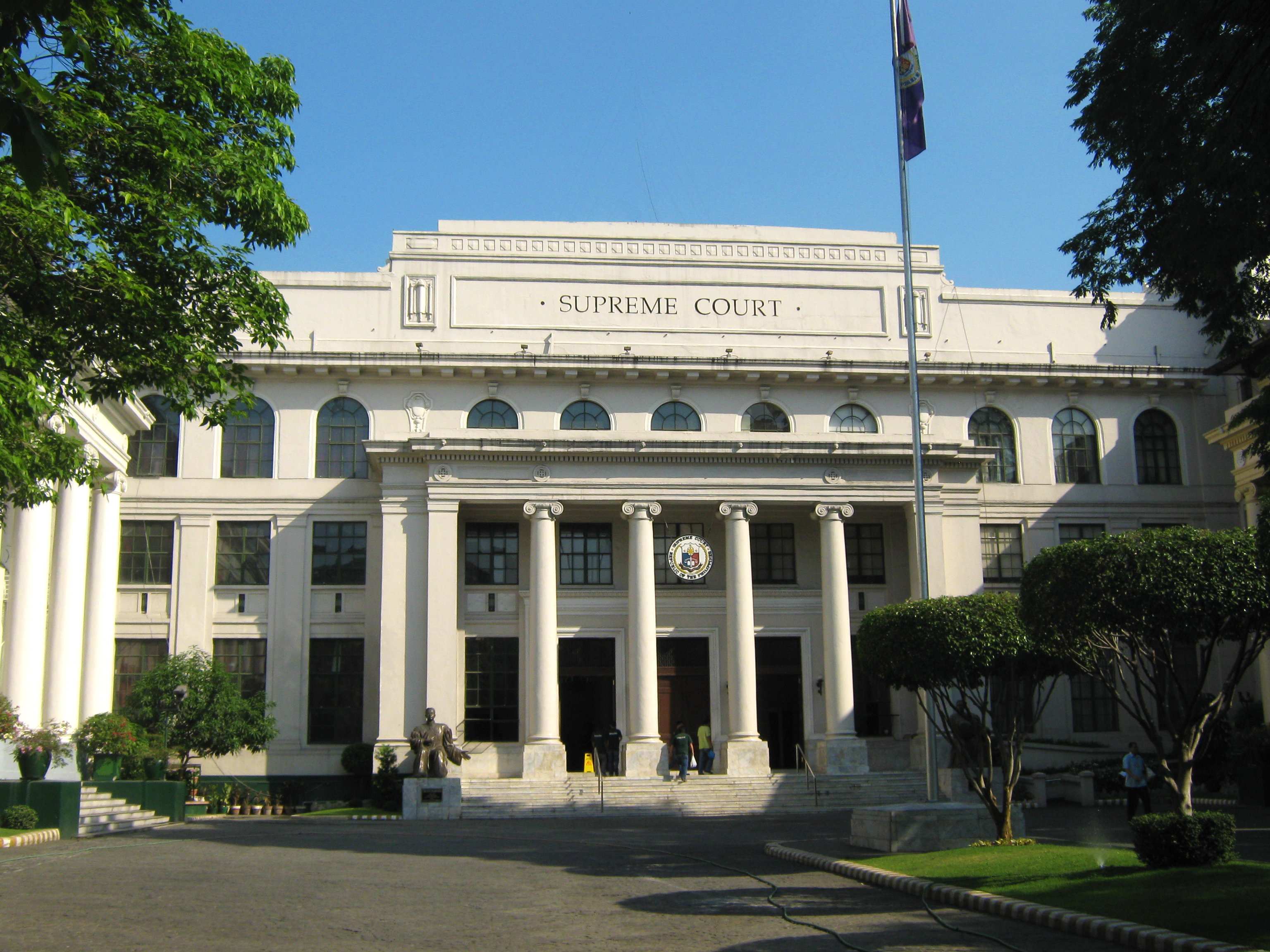 The Supreme Court of the Philippines building in Manila, Philippines.